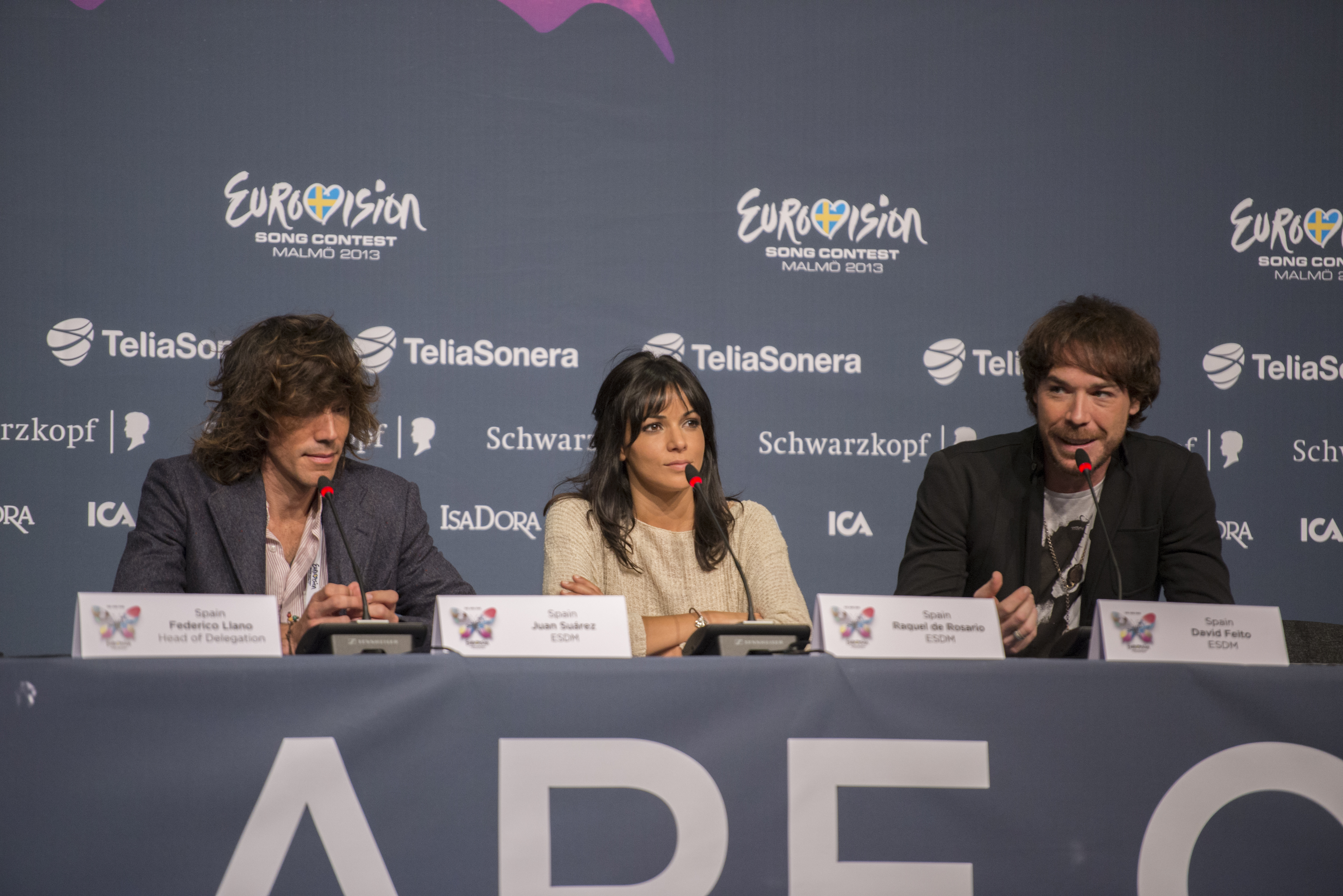 El Sueño de Morfeo at a press conference during the Eurovision Song Contest 2013 Malmö. (Help translate this text)